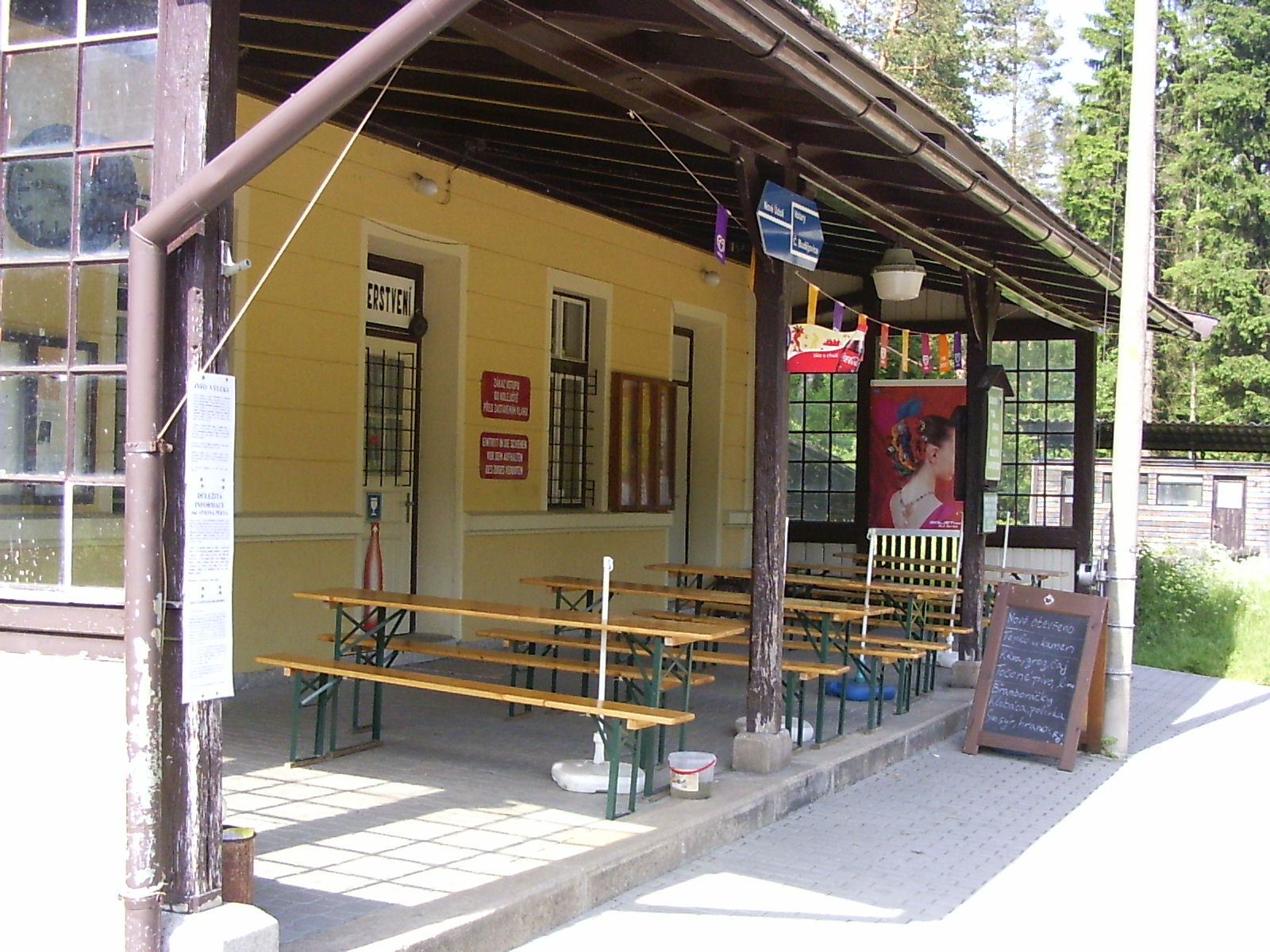 Černý Kříž train station waiting area